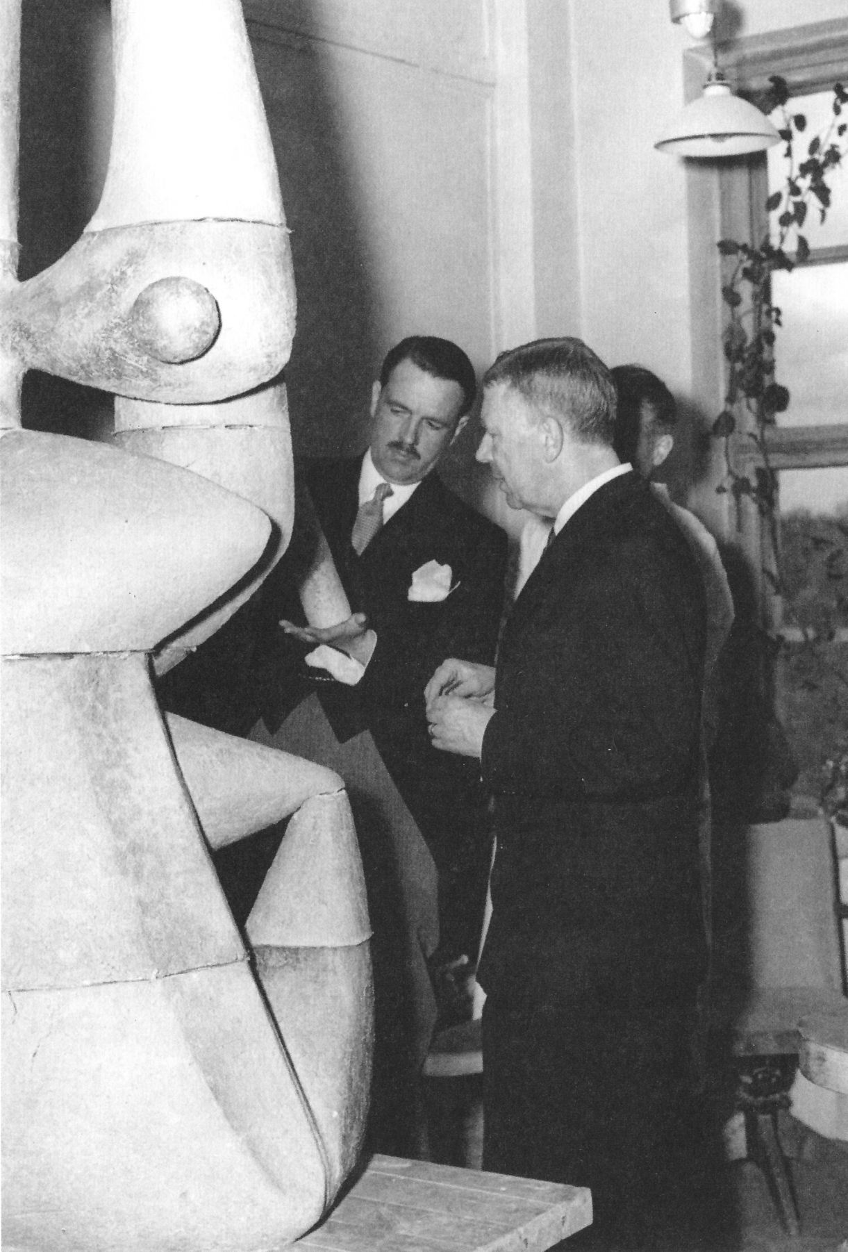 Photograph of the Finnish art expert Herman Olof Gummerus (1909–1996) presenting a sculpture by Sakari Vapaavuori to Gustaf VI Adolf, King of Sweden, at Arabia factory, Helsinki.